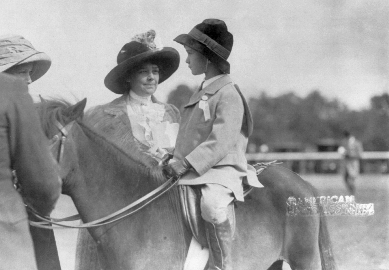 Photograph of Helen Hay Whitney and her six-year-old son John Hay Whitney